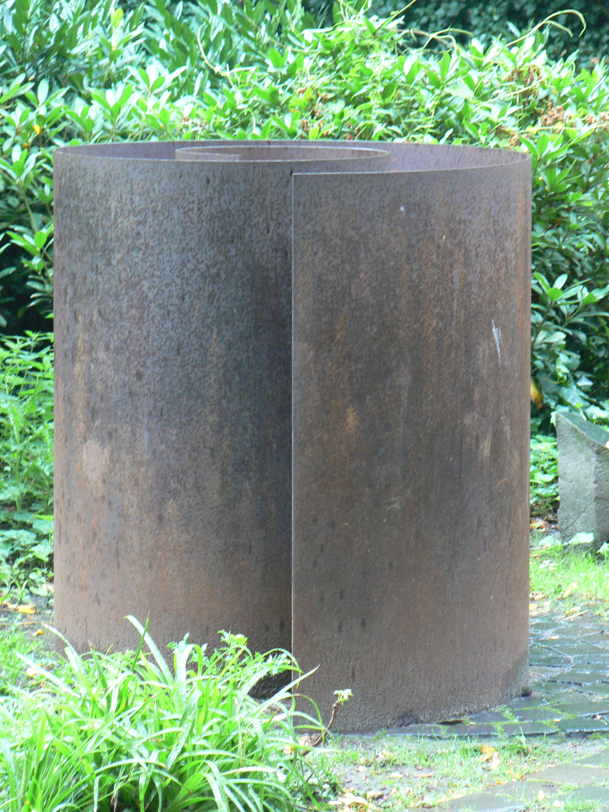 Sculpture Spirale (1980) by Wulf Kirschner at the Städt. Museum in Gelsenkirchen-Buer/Germany